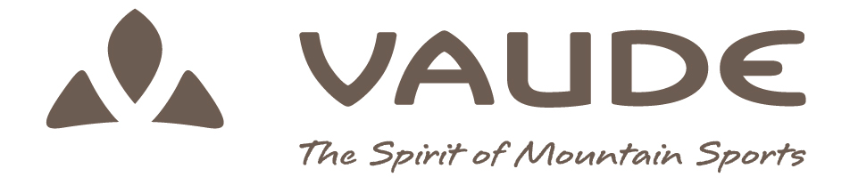 VAUDE Logo with Claim